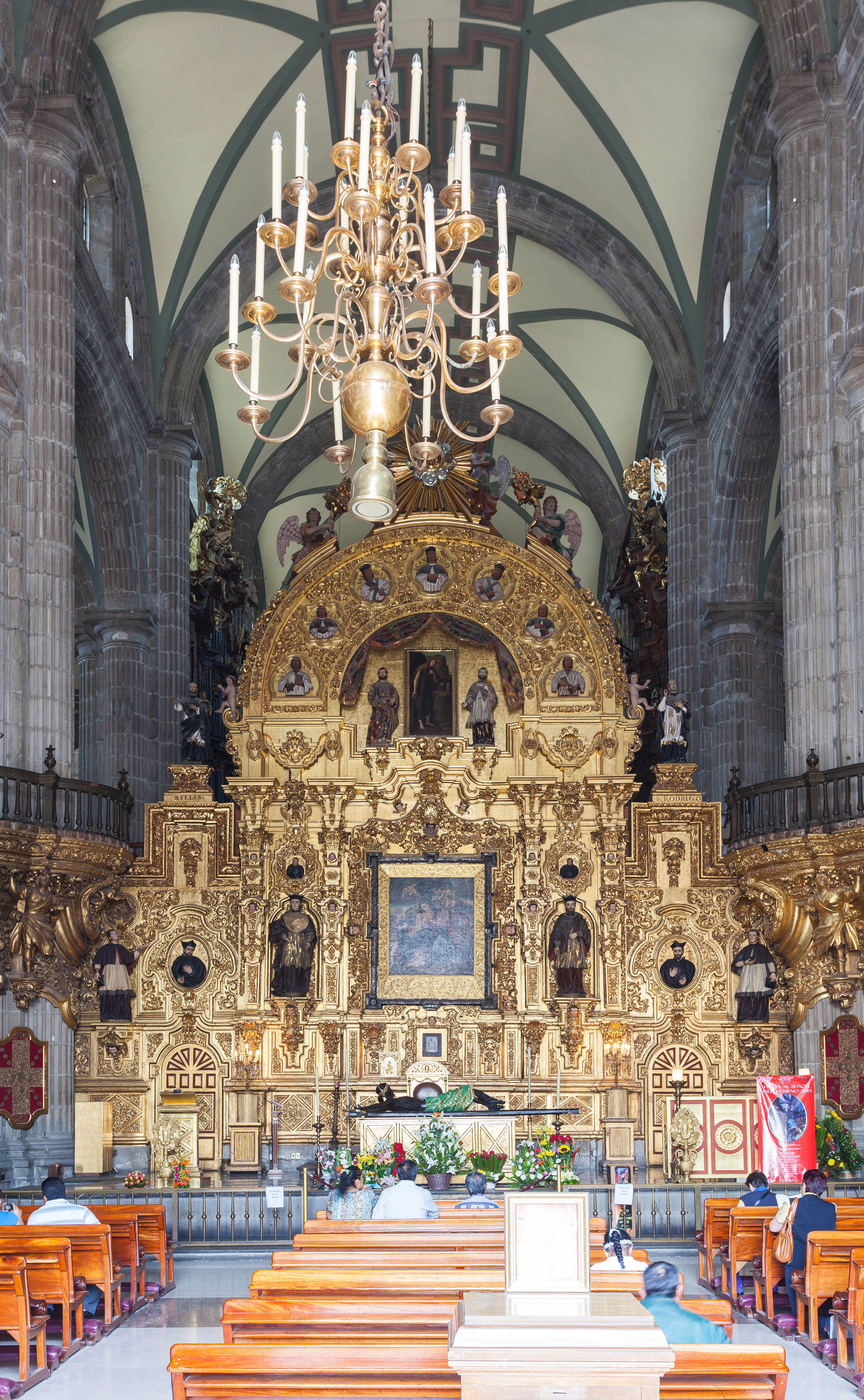 Metropolitan Cathedral, Mexico City, México